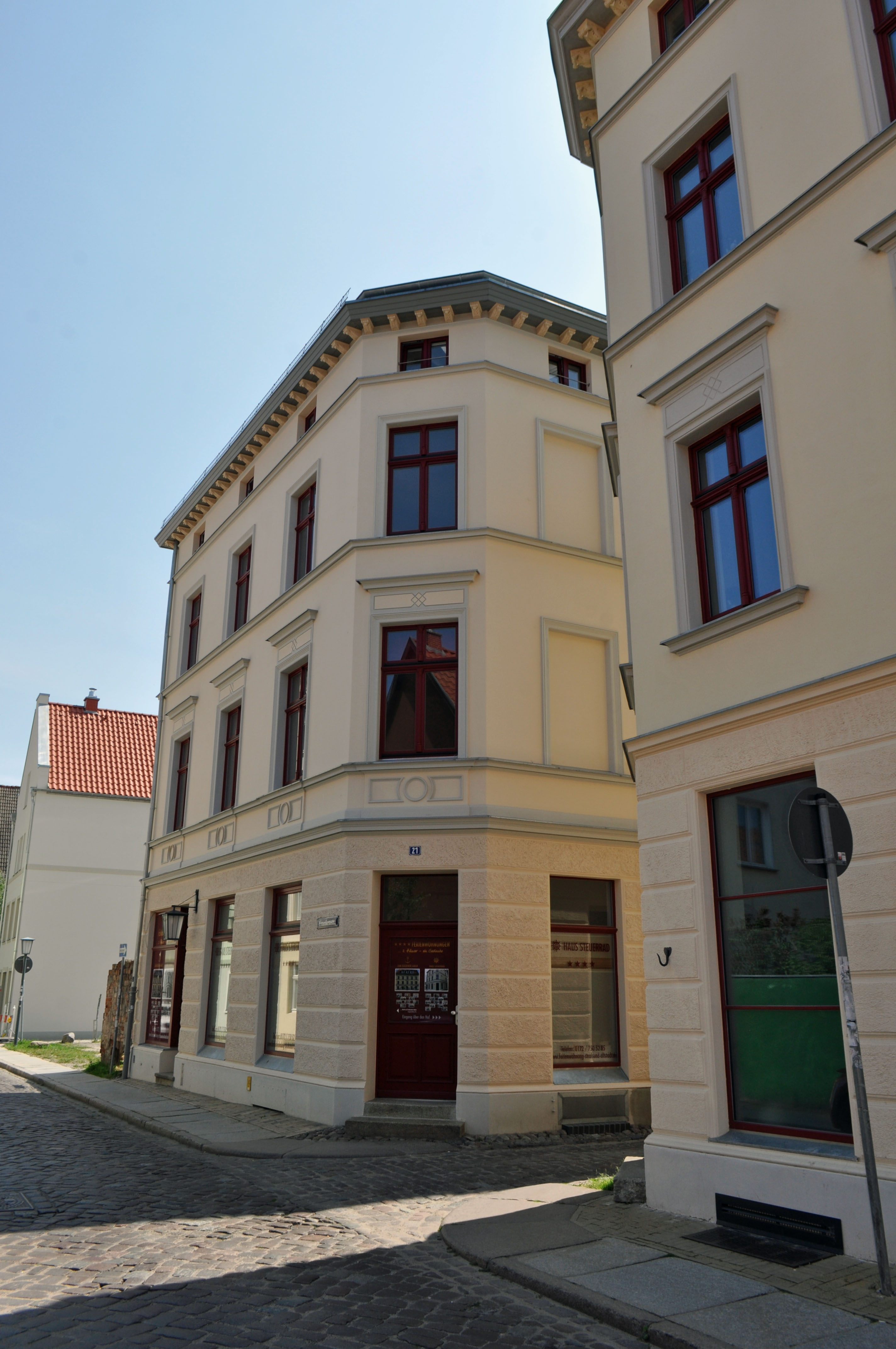 Frankenstraße 21, Ecke Fischergang This is a photograph of an architectural monument.